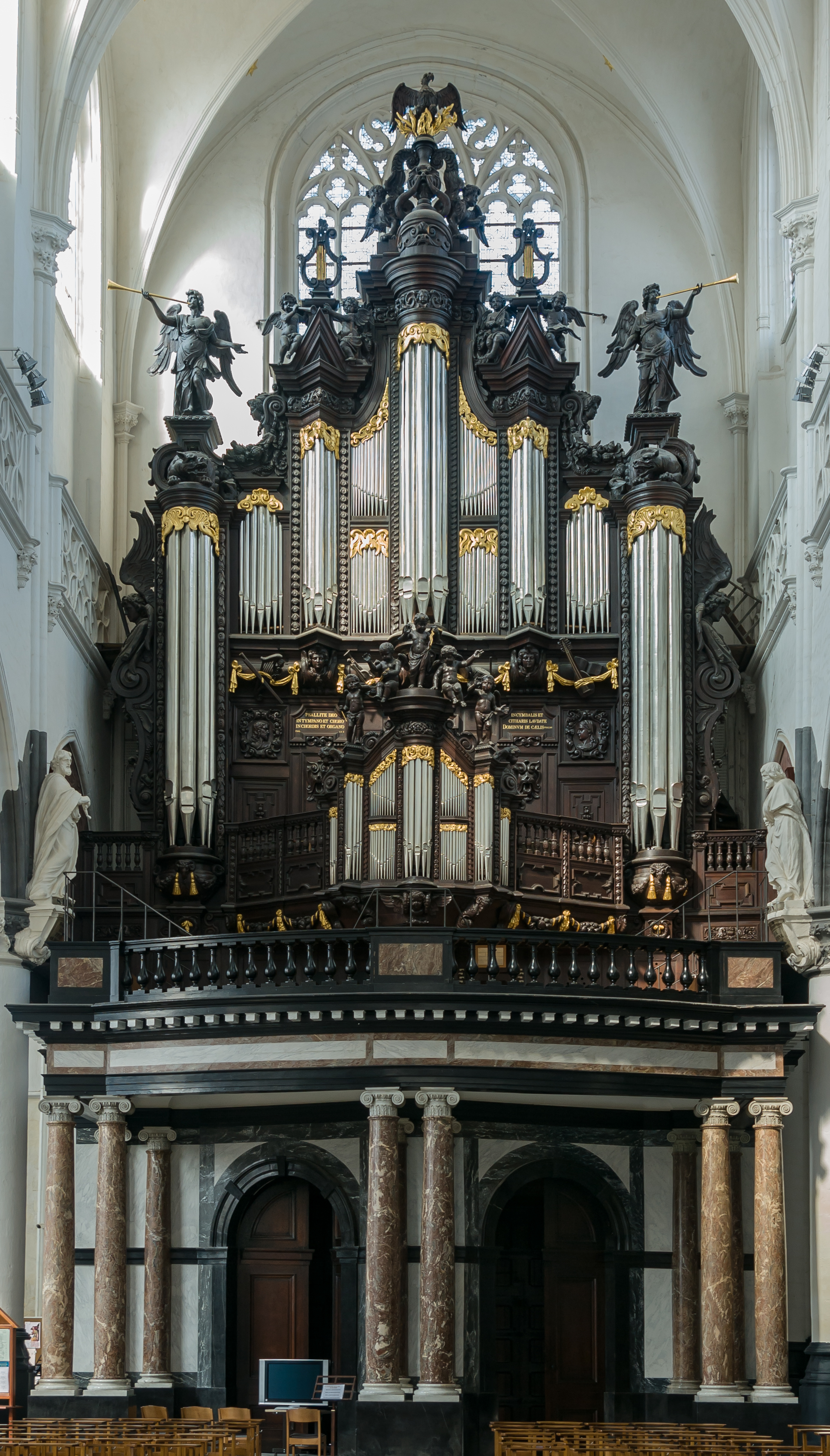 Antwerp, Belgium: Pipe organ of Sint-Pauluskerk